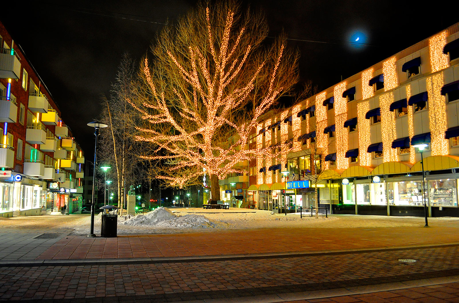 Tree in central Piteå